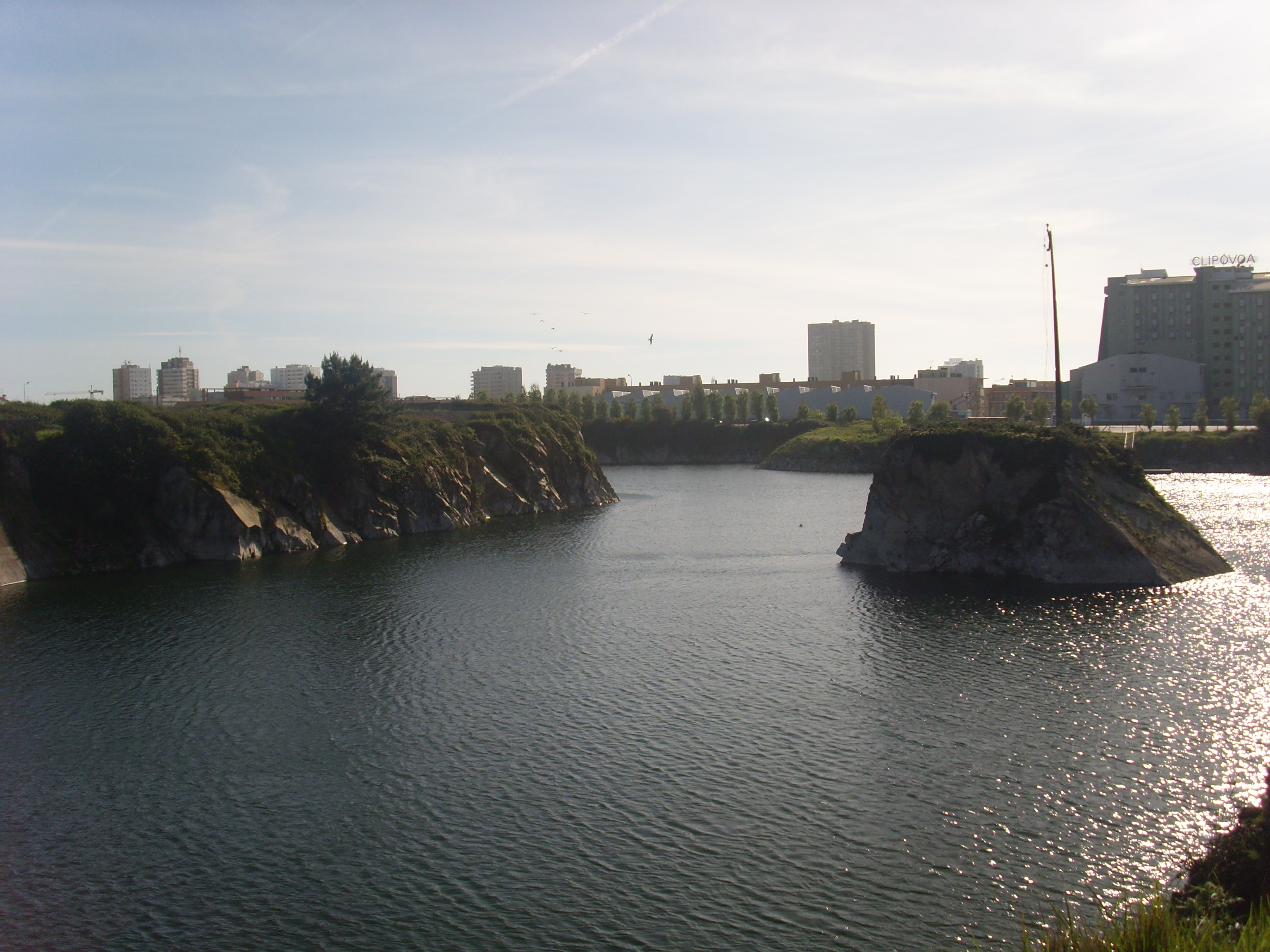 Pedreira Lake in Póvoa de Varzim